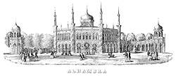 Lithography of the Moorish Castle, a theater built in Moorish Architecture. Location was Frederiksberg, Denmark.